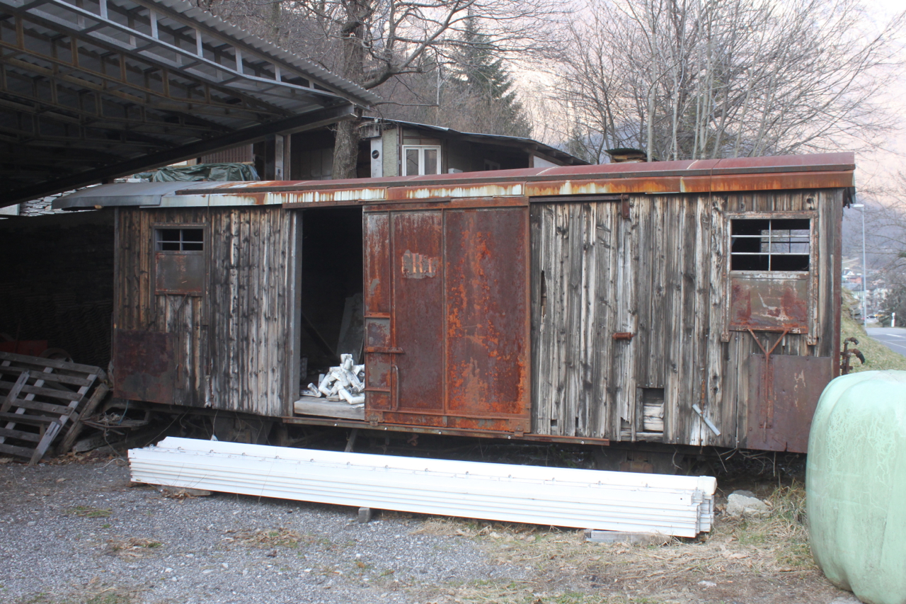 FART K 105 at Bignasco. This freight car was built by SIG in 1888 as (3-axle) passenger coach AB3 253 for the Brünig line; in 1944 it was transformed as a (2-axle) box car and sold to Ferrovie Regionali Ticinesi. After the Ponte Brolla-Bignasco railway was dismantled in 1965, it remained in Bignasco.